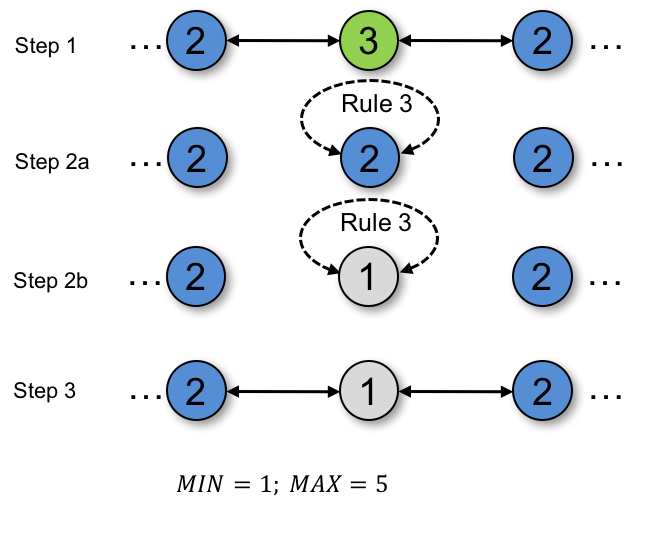 Illustration of KHOPCA rule 3.